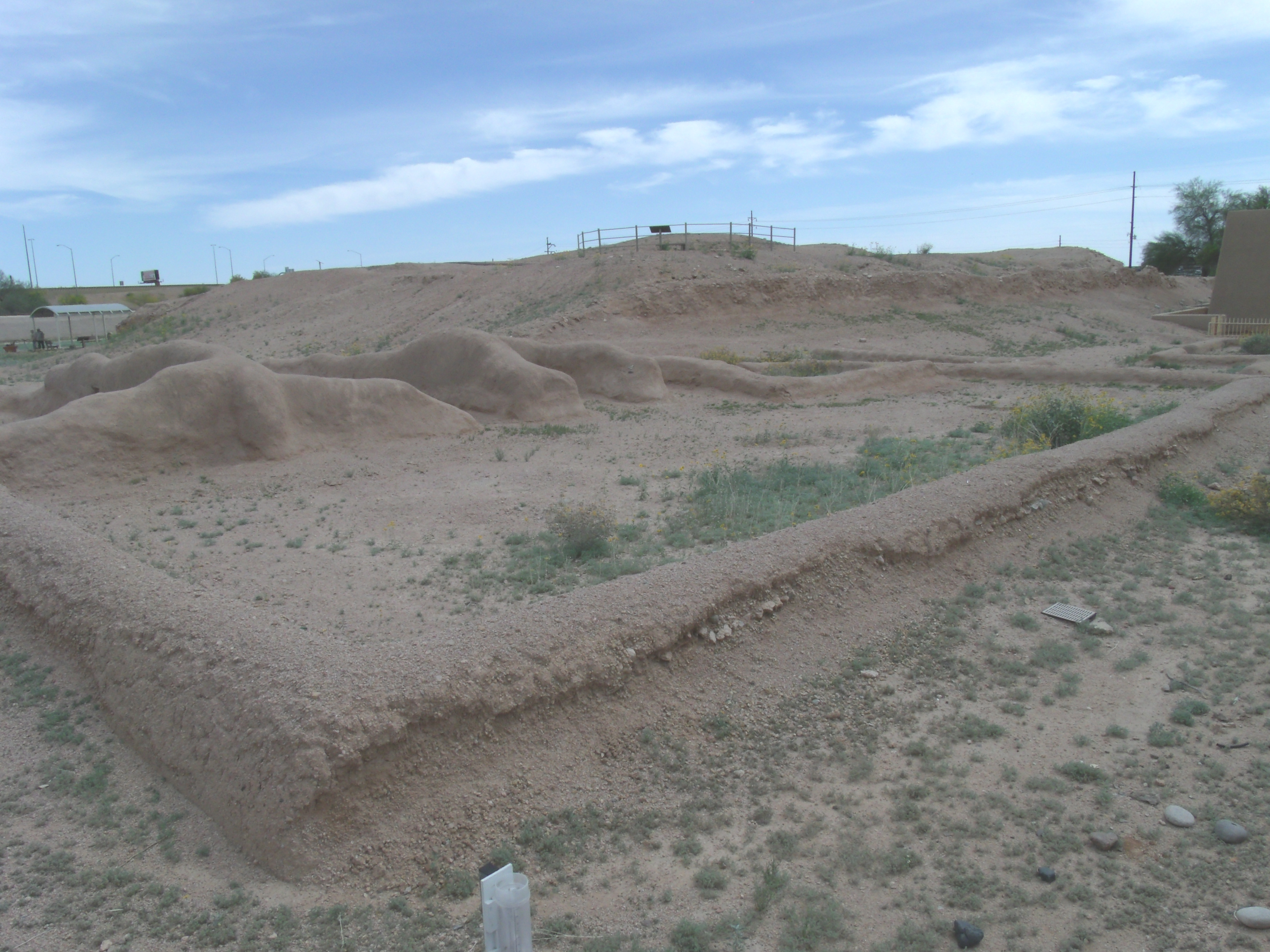 Partial view of the Hohokam Village. The ruins are listed in the National Register of Historic Places reference #66000184.